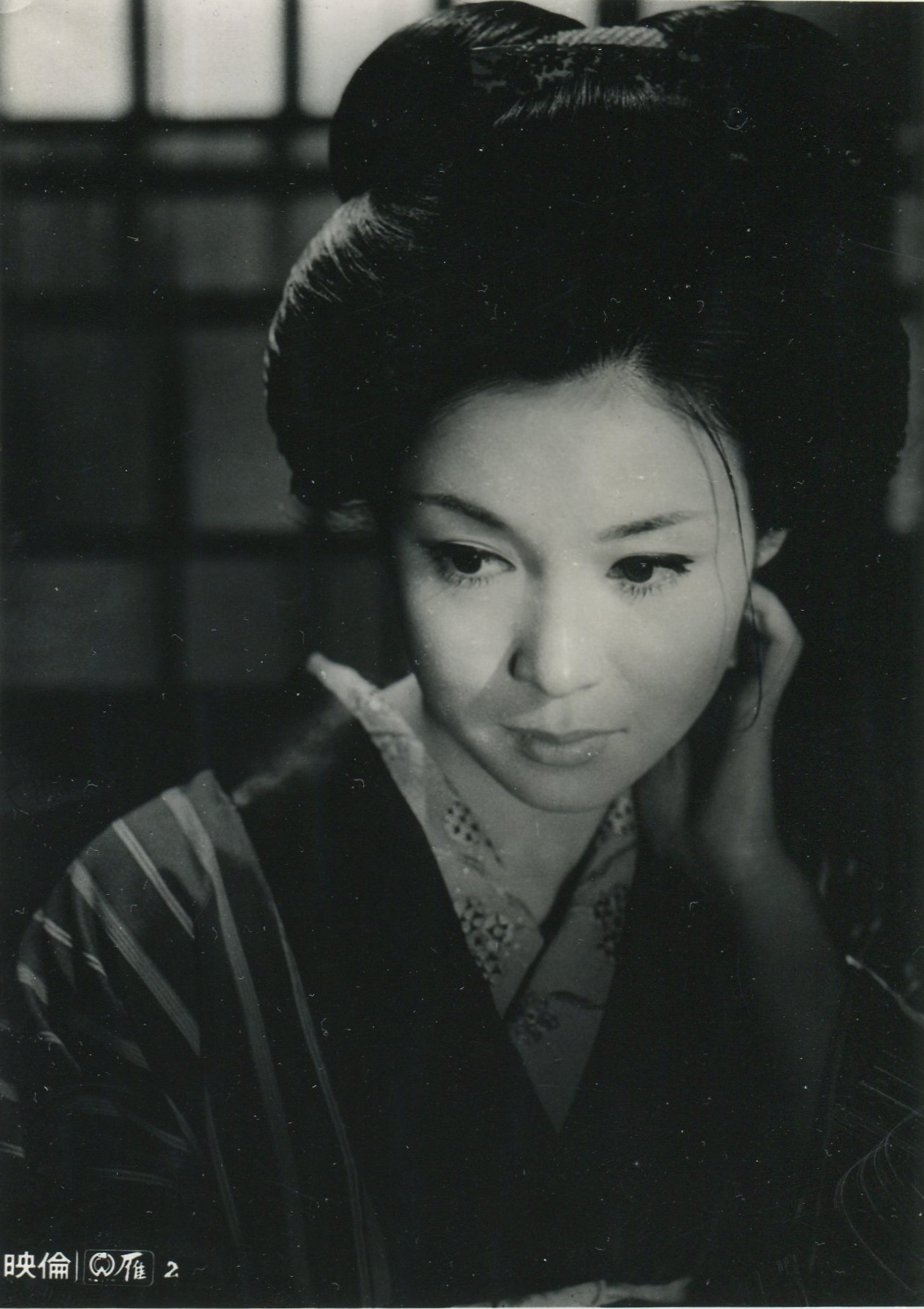 Ayako Wakao in "The Wild Geese" (1966) - publicity still